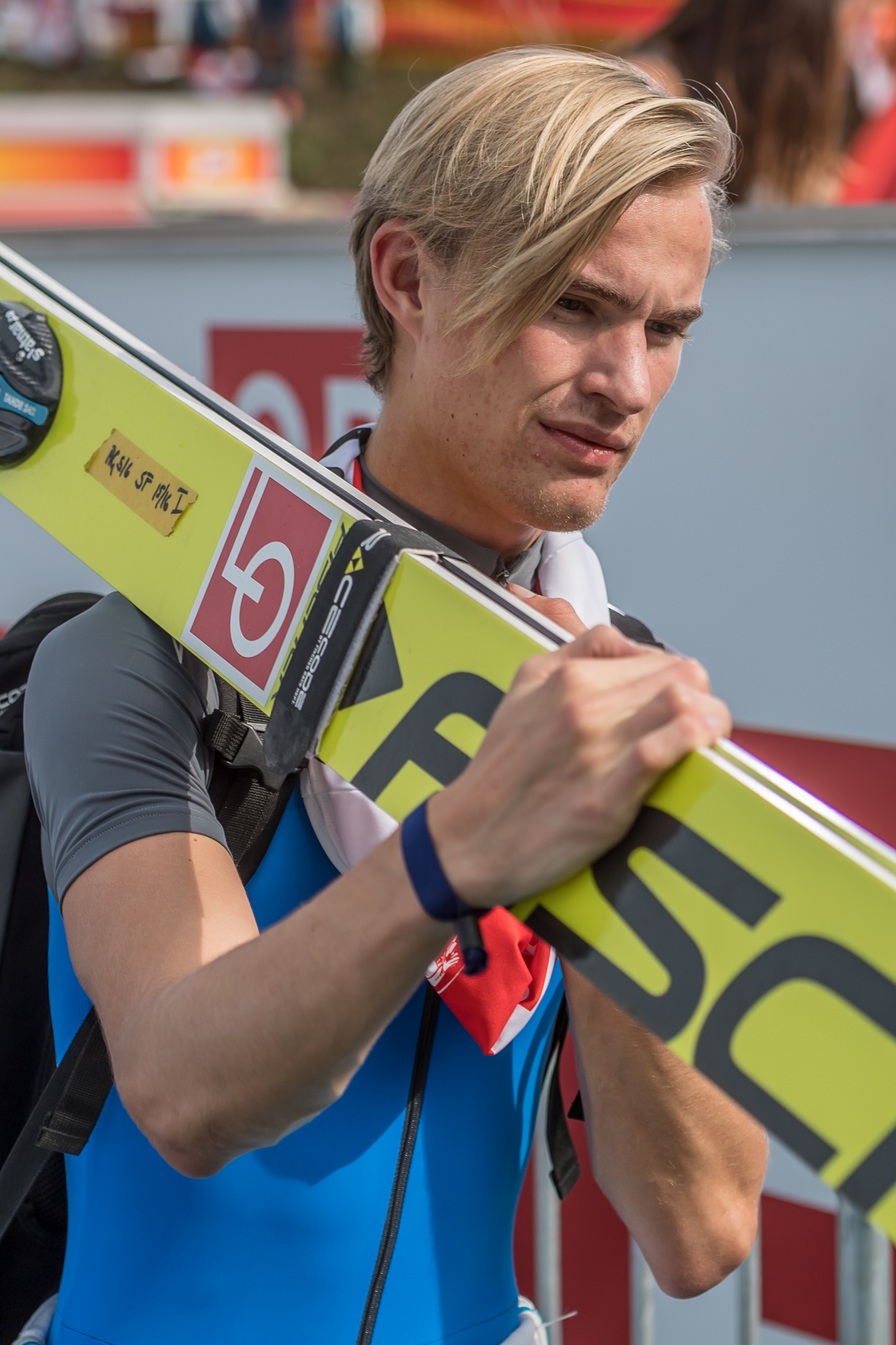 Hinzenbach, Austria, FIS Ski Jumping Grand Prix 2016